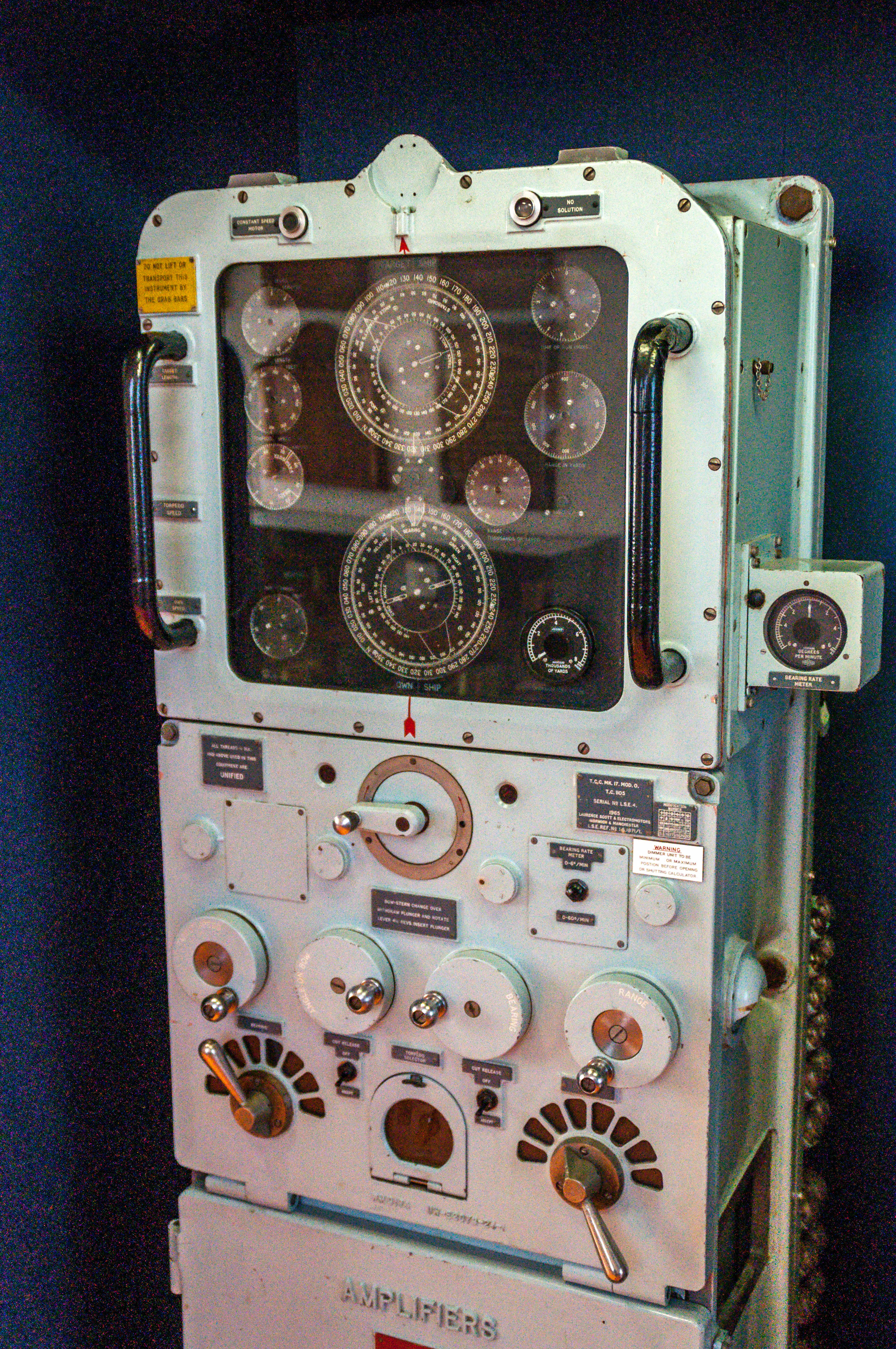 Torpedo Control Console Mk 17 Mod 6 - Analogue integration of target information - RAN Oberon Class Submarine